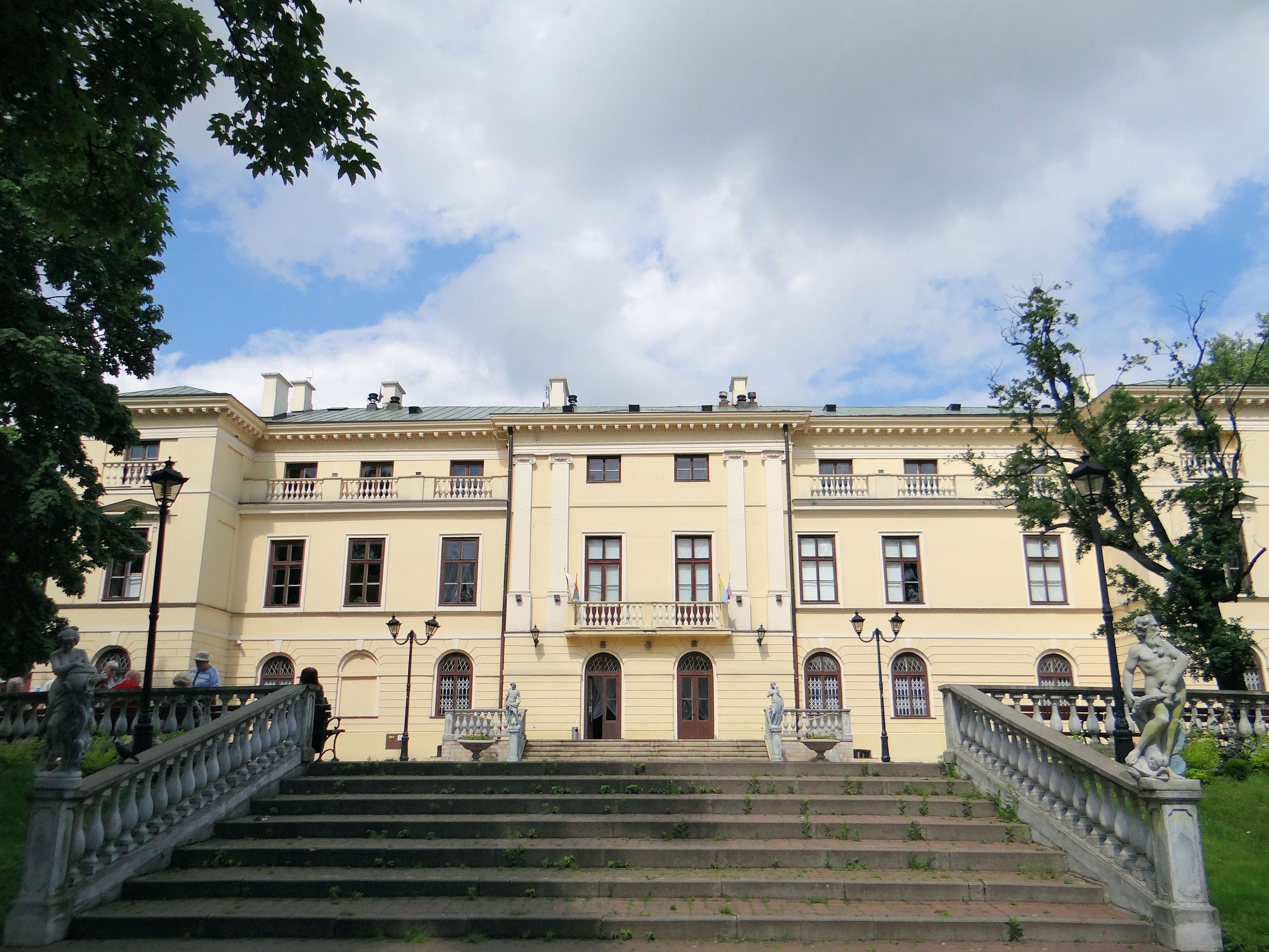 Dernałowicz Palace in Mińsk Mazowiecki